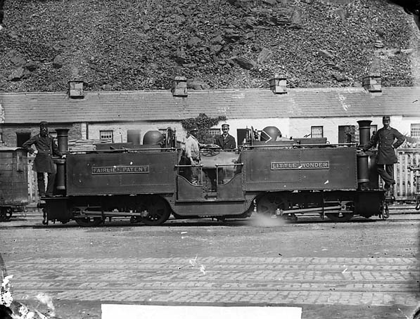 1 negative : glass, wet collodion, b&w ; 16.5 x 21.5 cm.